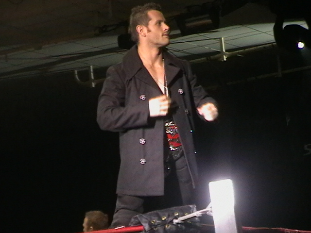 Alex Shelley at a TNA House Show in Dublin, Ireland